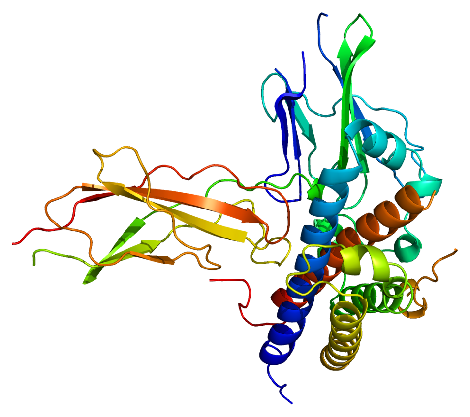 Structure of the GH2 protein. Based on PyMOL rendering of PDB 1a22.